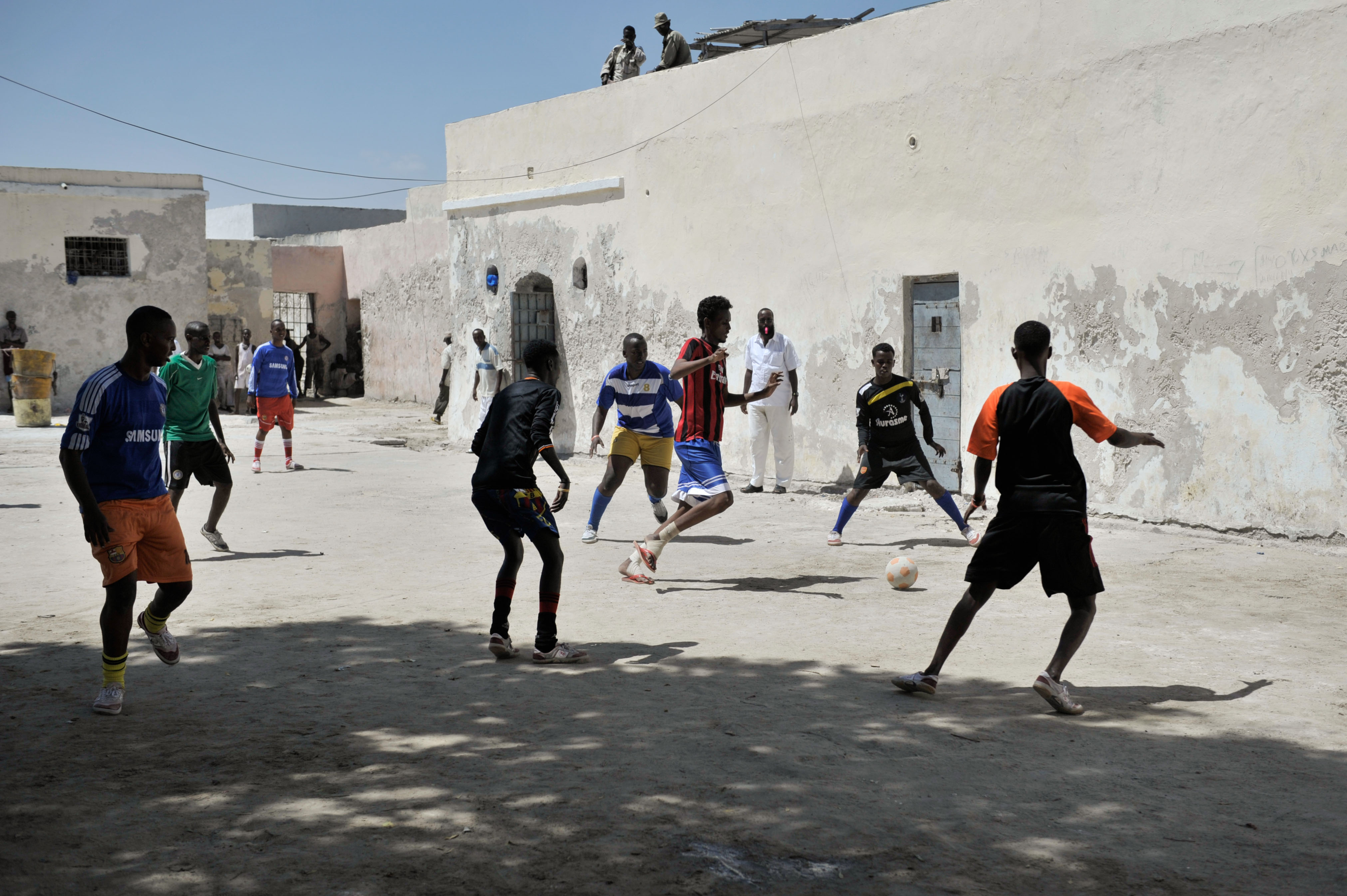 Prisoners play football in the courtyard of Mogadishu Central Prison, Somalia, on December 10. Human Rights Day was marked in Somalia by an event held outside of Mogadishu Central Prison. A variety of performances by singers and dancers were held there, as well as speeches given by government officials and civil society representatives. AU UN IST PHOTO / Tobin Jones.